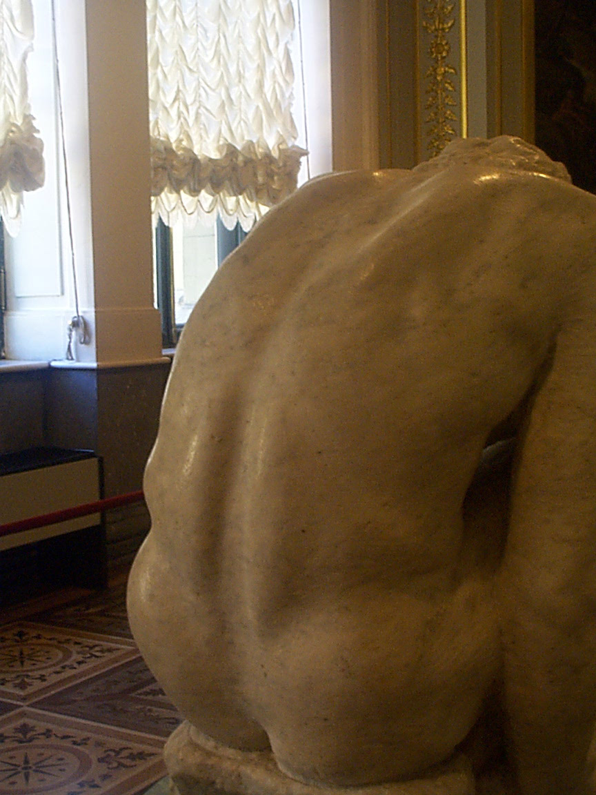 Title Couching Boy Location: Hermitage, St. Petersburg Photographer: Mak Thorpe, taken 1999.